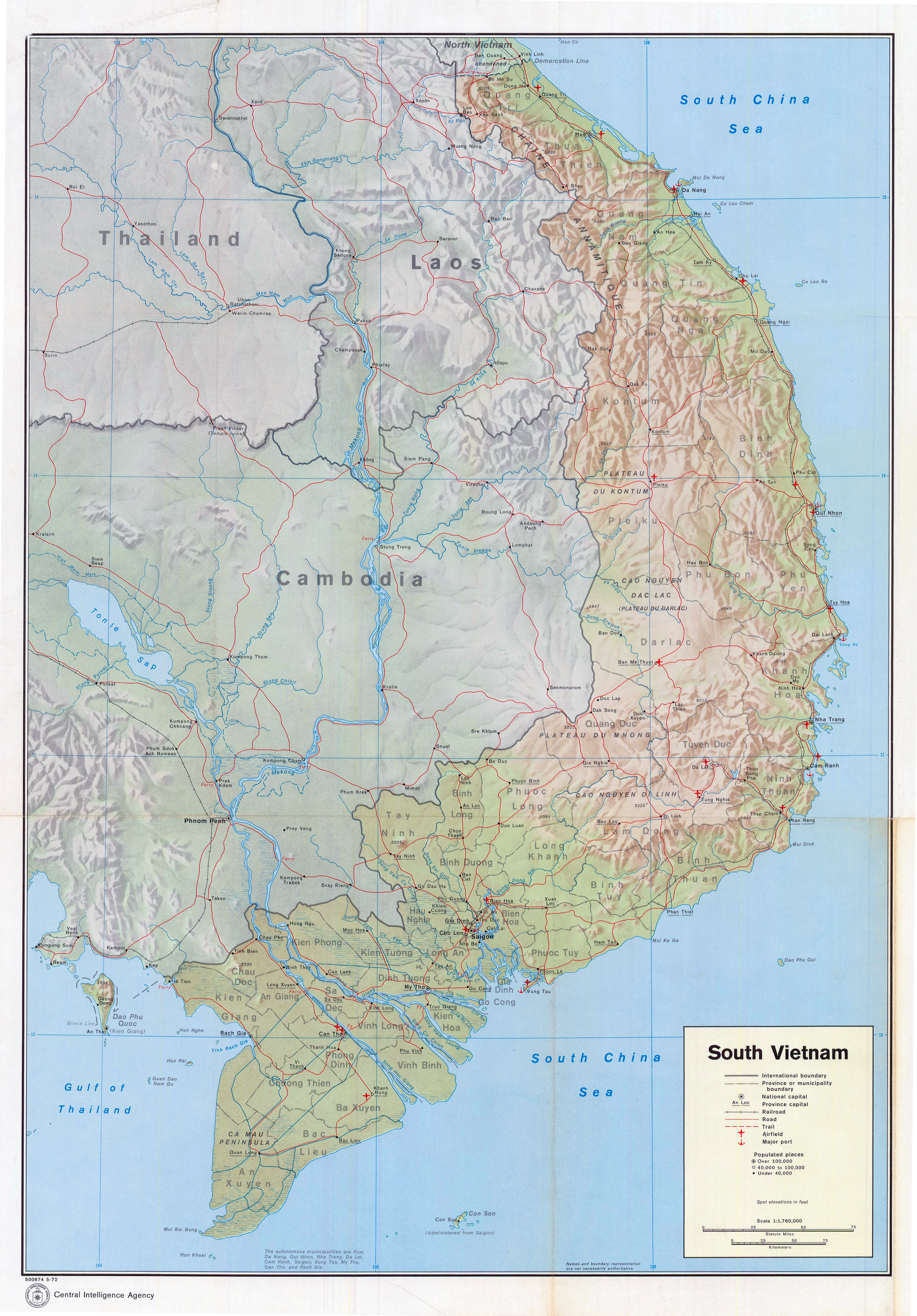 From the Virtual Vietnam Archive ( Produced by the CIA.